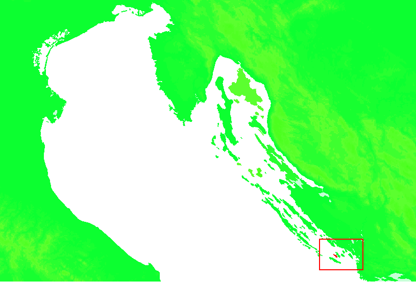 Island of Croatia Croatia - Kakan.PNG